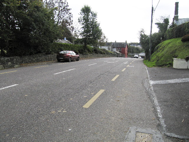 Belgooly, County Cork, Ireland